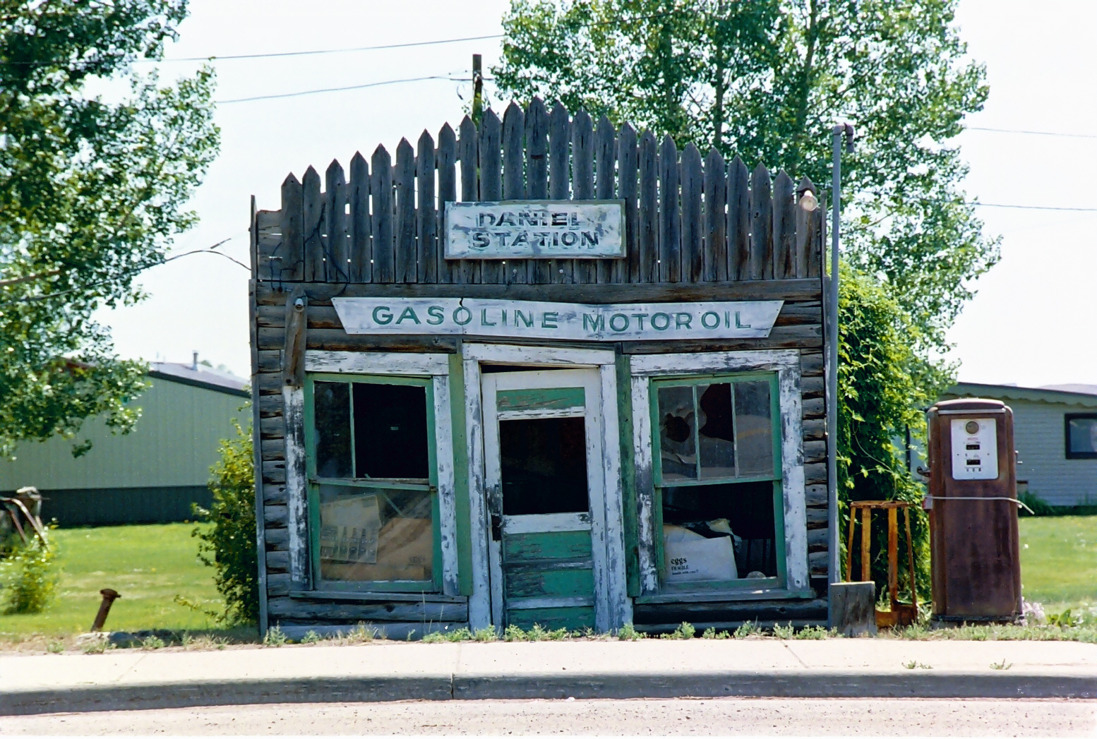 abandoned historic gas station Daniel Station, Daniel, Wyoming, USA